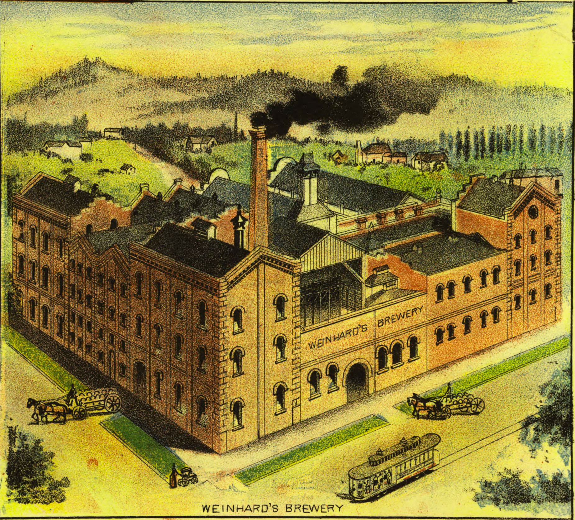 The Clohessy and Strengele image of the Weinhard's Brewery in Portland, Oregon